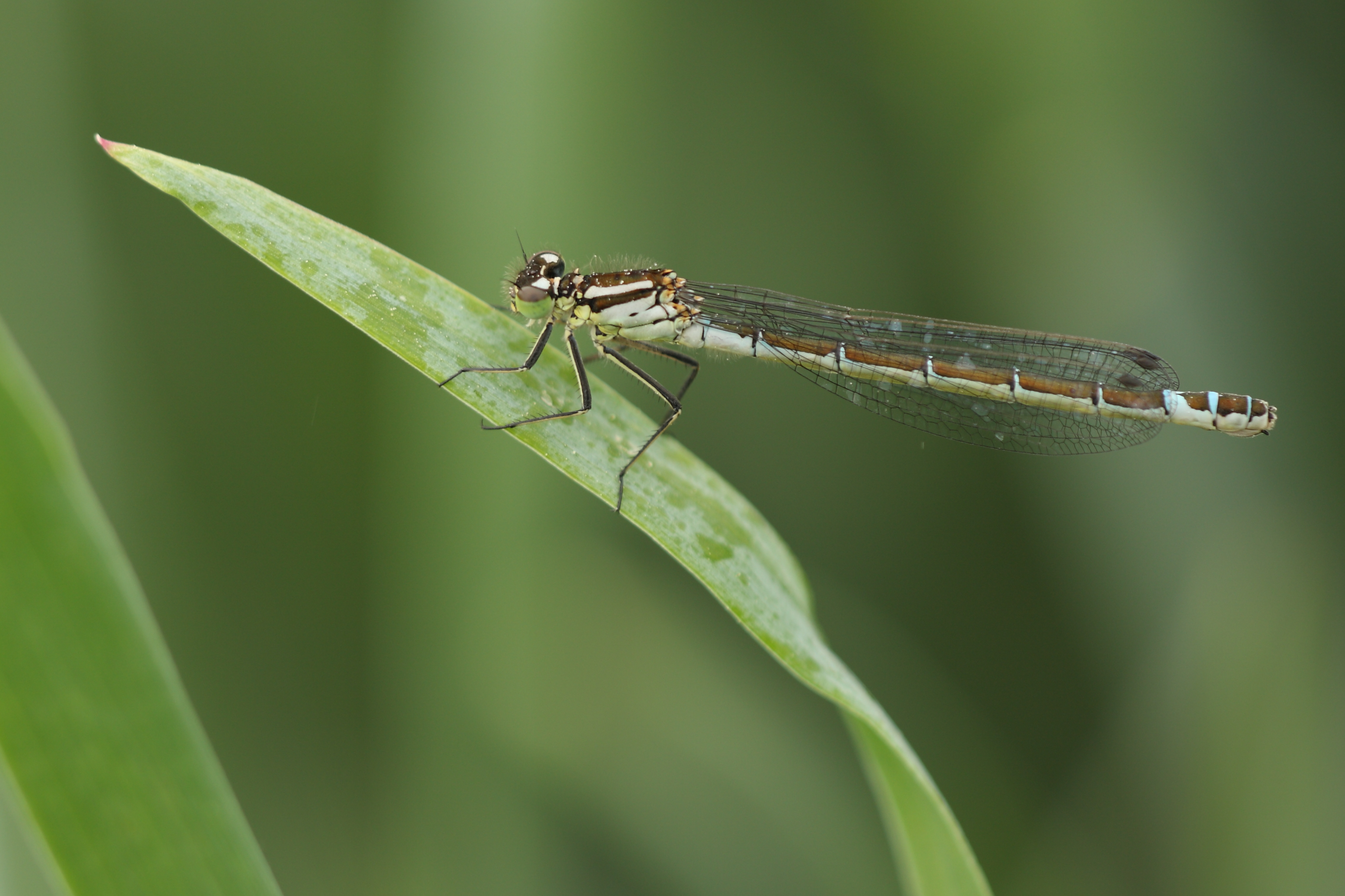 Crescent Bluet, adult female from Brandenburg/Germany